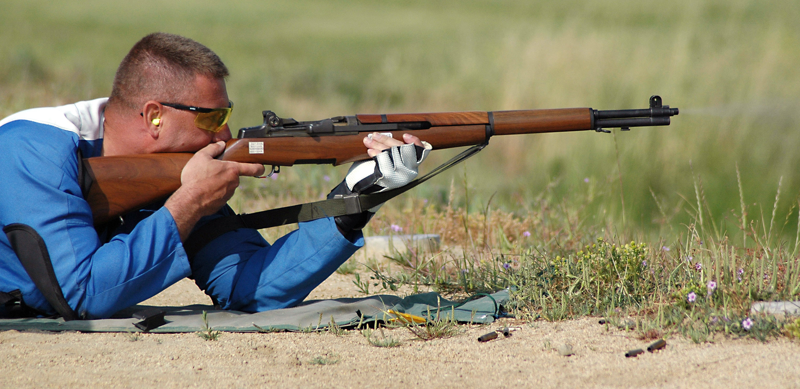 US Coast Guard (USCG) First Class Port Securityman (PS1) Dennis Carney, Coastal Warfare Sector San Diego, fires an M1 Garand Rifle during the prone 300-yard rapid-fire stage of the 2006 Fleet Forces Command (Pacific) Rifle and Pistol Championships. Sailors, Marines, Coast Guardsmen and civilians competed in team and individual divisions during the annual marksmanship competition.Calif. (May 52006) U.S. Navy photo by Journalist 1st Class Brian Brannon.